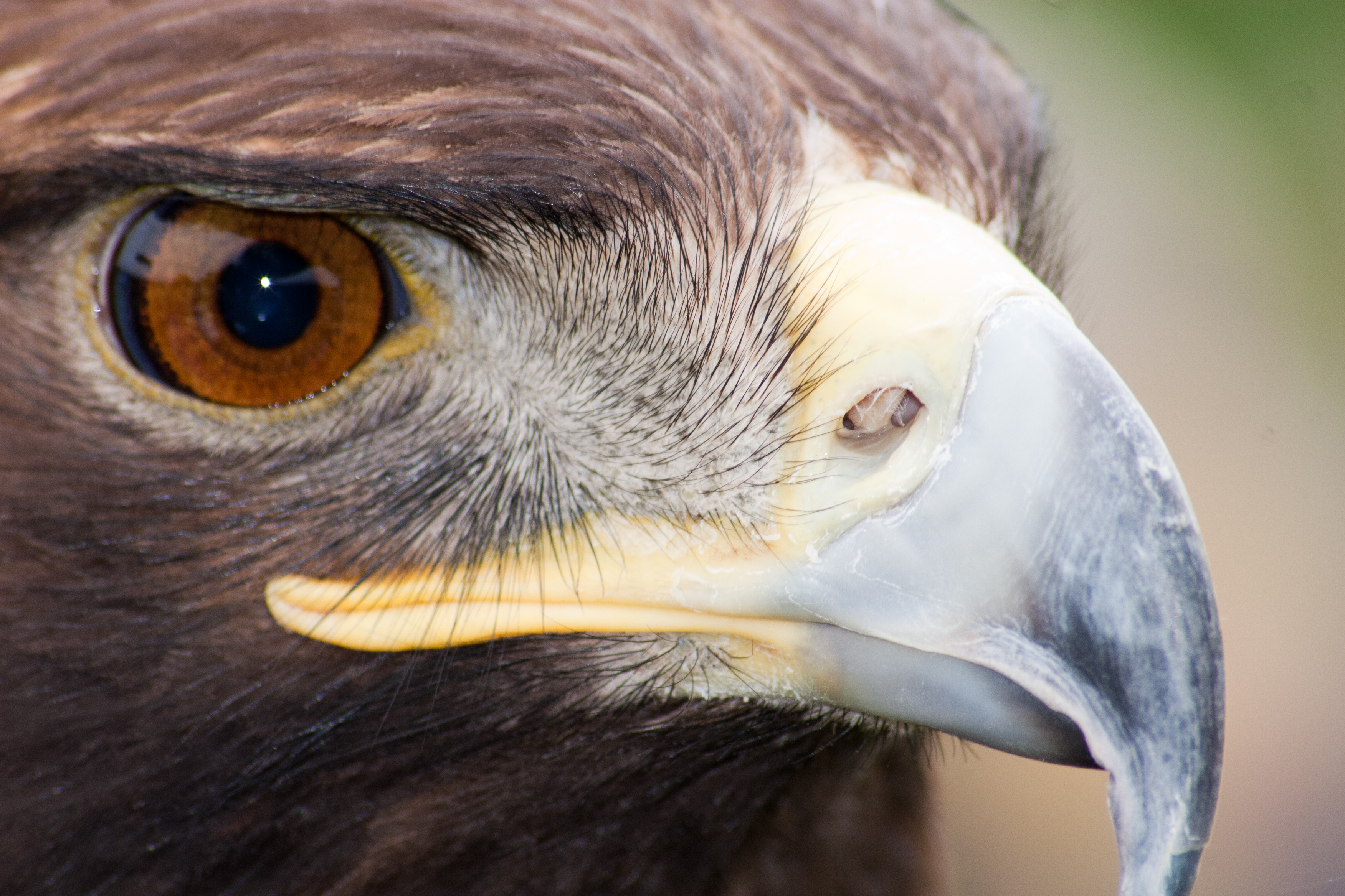 From Wilderness Road State Park's highly successful Remarkable Raptors program.